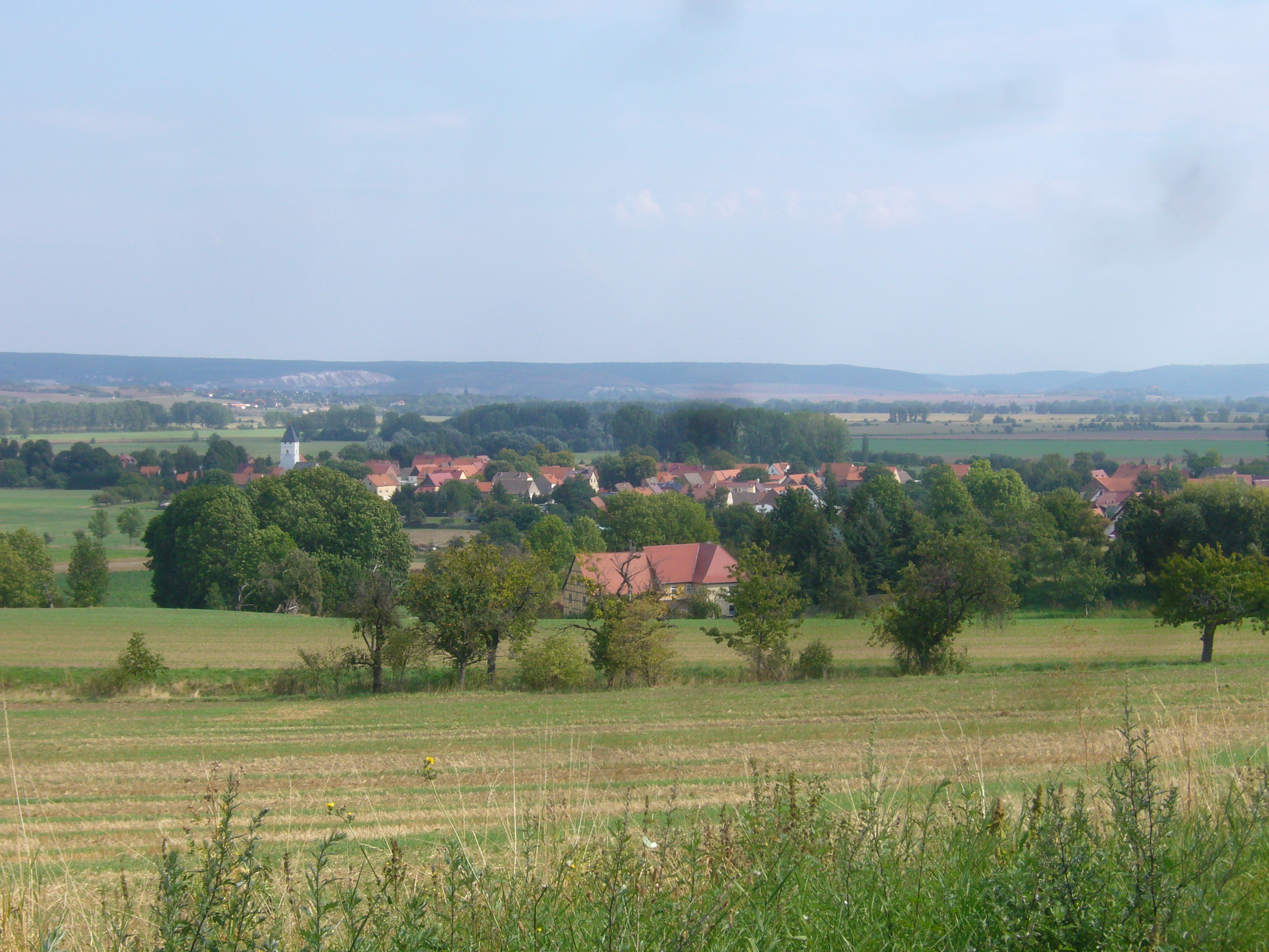 View on Donndorf, Kyffhäuserkreis, Thuringia, Germany